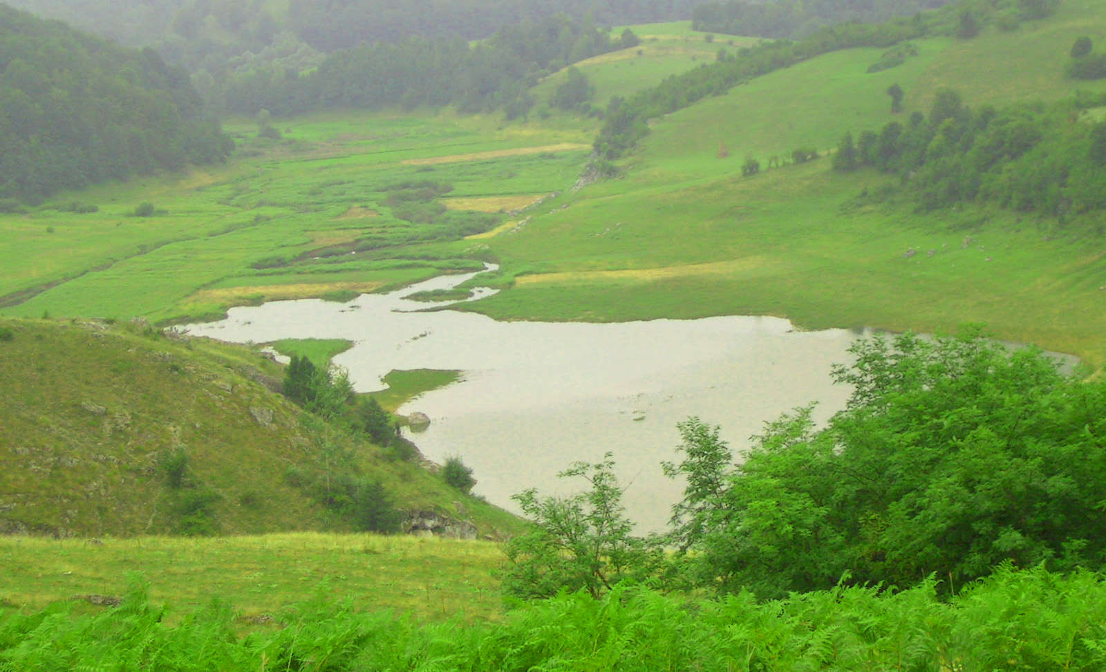 Zăton Lake